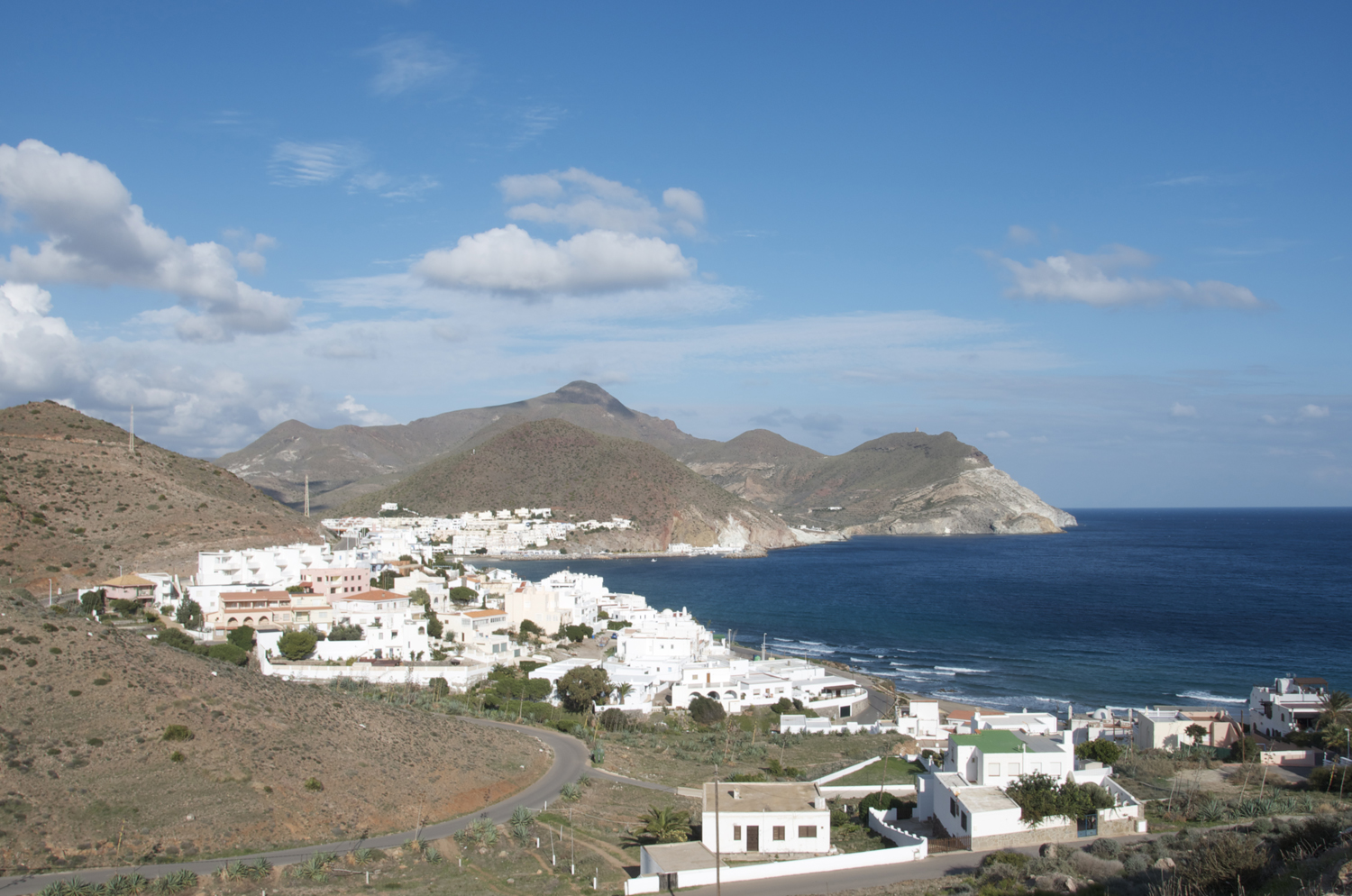 San José as seen from Campillo de los Genoveses, one of the major tourist destinations of Parque Natural de Cabo de Gata and in fact, the province of Almería.